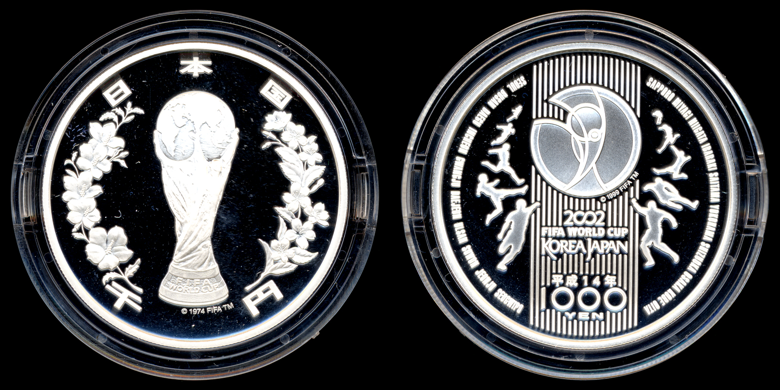 FIFA2002-1000yen